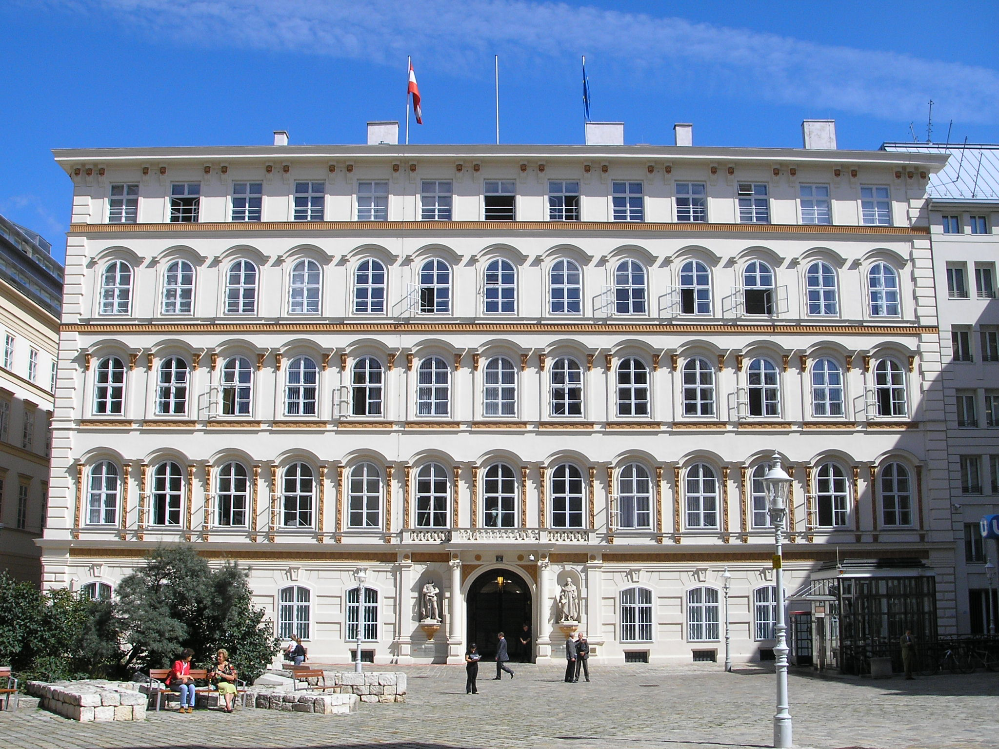 View of the Austrian Ministry of Foreign Affairs in Vienna.